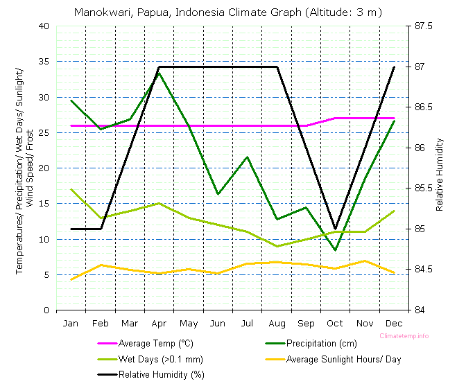 Climate Graph of Manokwari